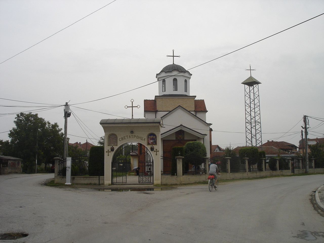 The church of Holy Trinity in the village of Marino, near Skopje, Macedonia